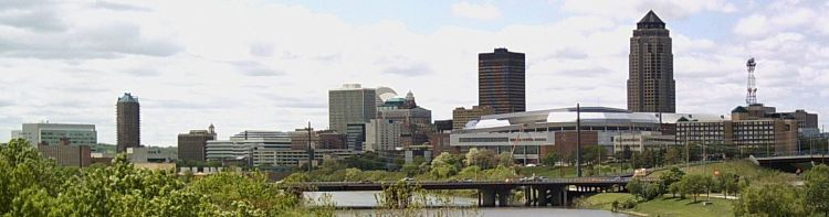 Skyline of Des Moines, Iowa, taken from the University Avenue bridge over the Des Moines River on May 14, en:2005.